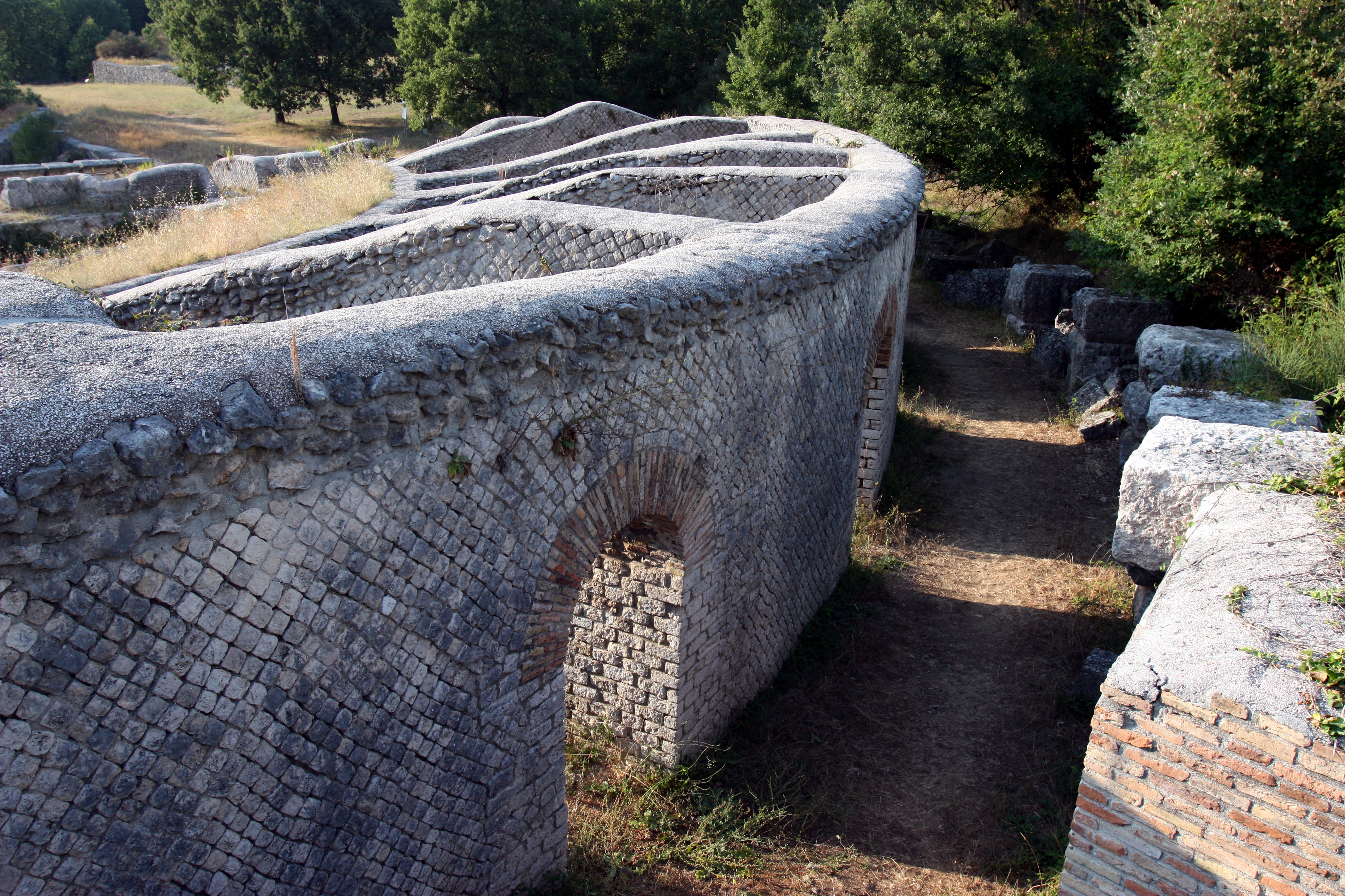 Part of the semicircular theatre at Carsulae, Umbria, Italy.